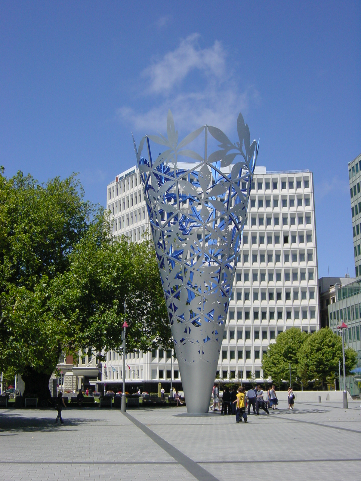 Sculpture (2000) by Neil Dawson in Christchurch/New Zealand